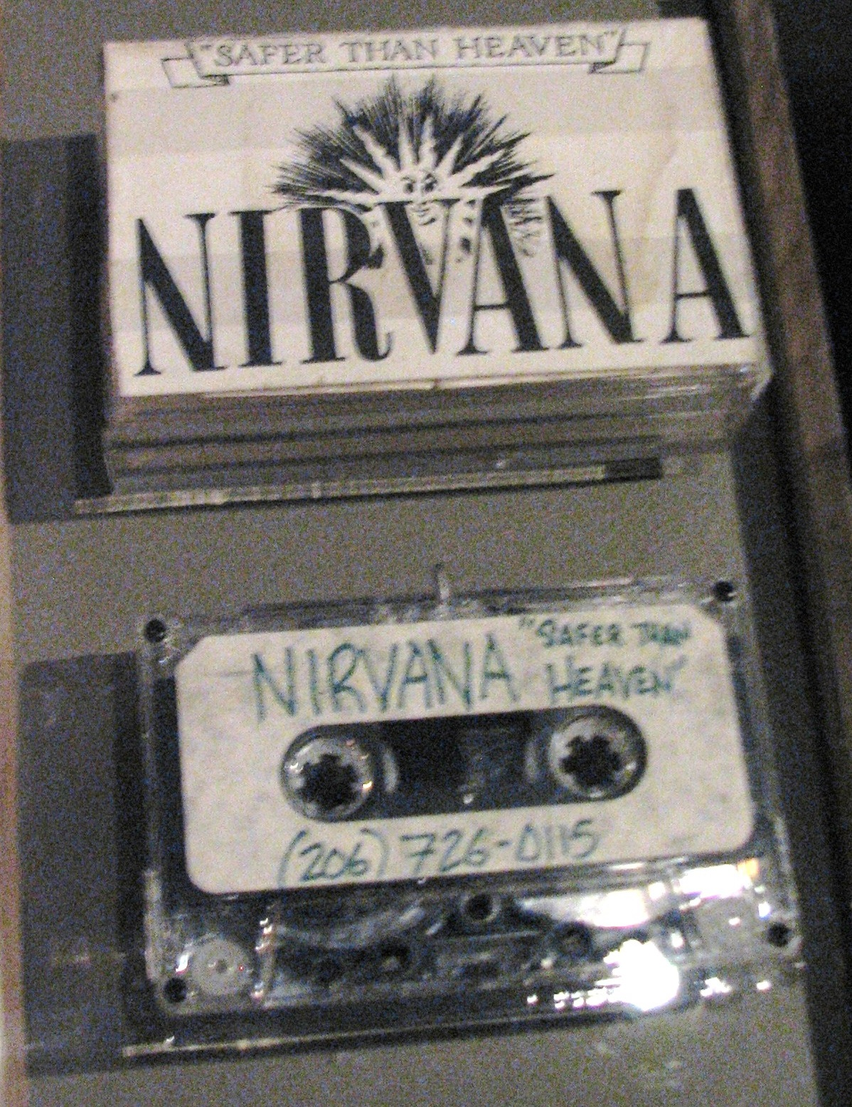 Oct 7-8 2011 113